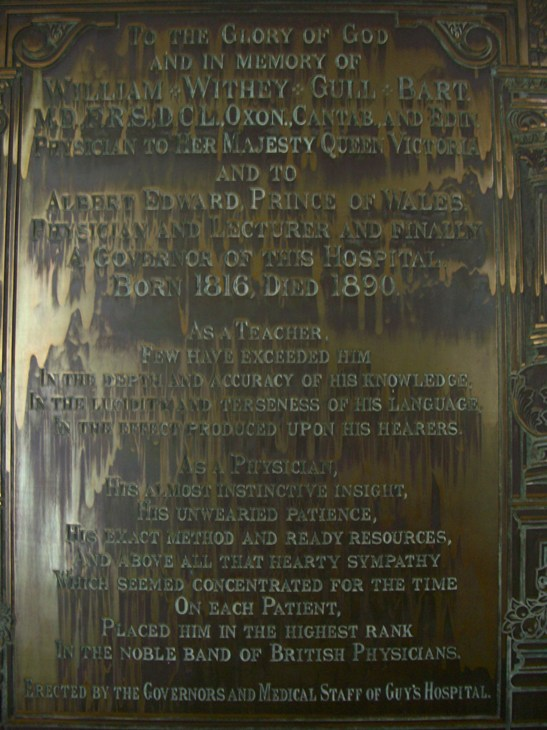 Bronze memorial to Sir William Withey Gull, located at Guy's Hospital Chapel, St Thomas Street, London